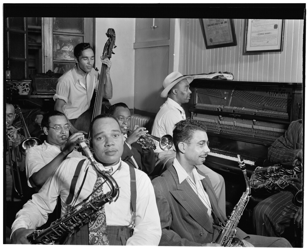 Joe Thomas and Eddie Wilcox, Loyal Charles Lodge No. 167, New York